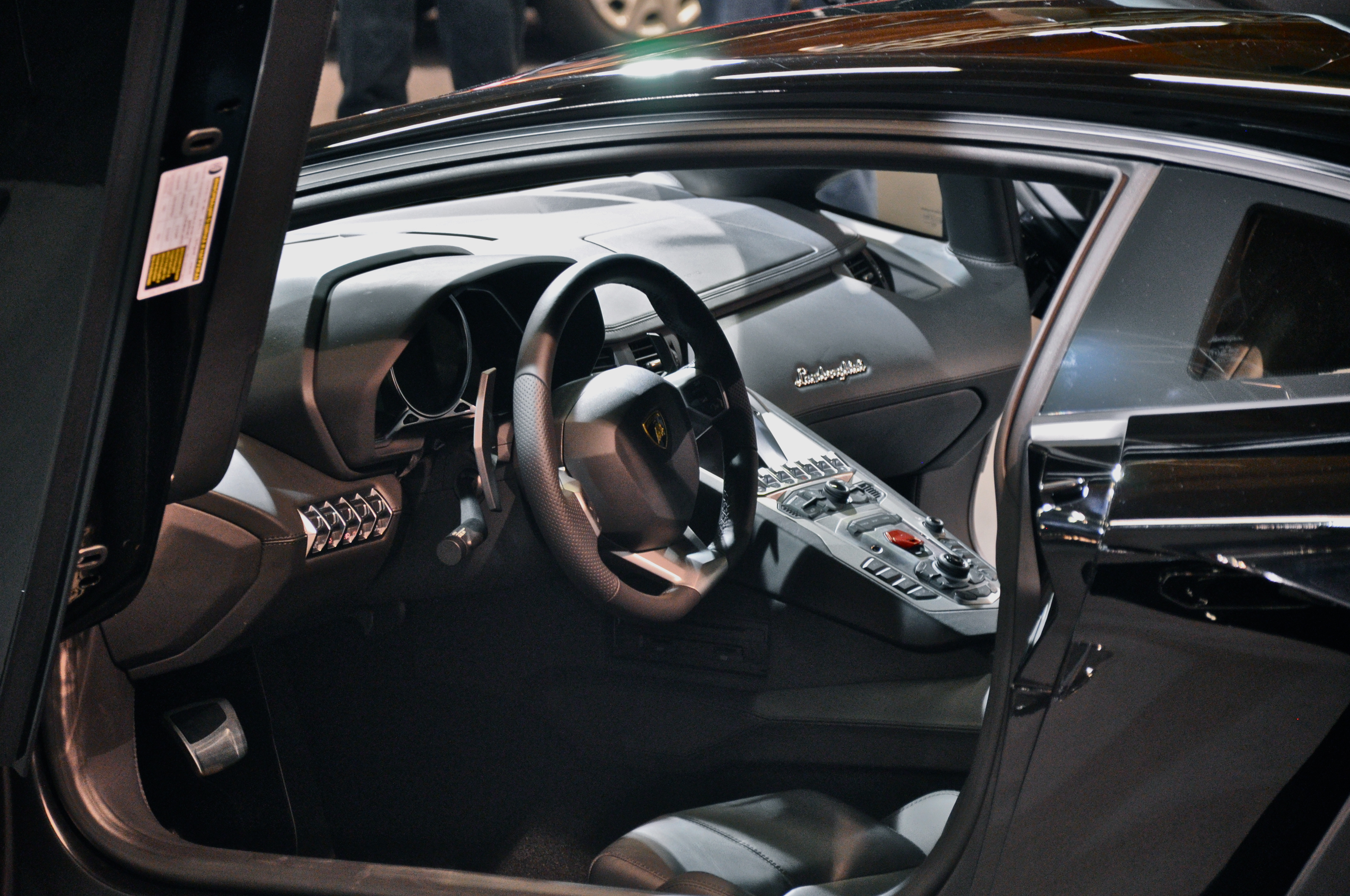 An interior shot of a Lamborghini Aventador.